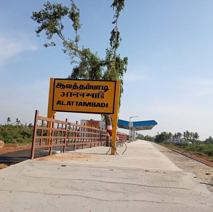 Alattambadi is connected by Indian Railway - Southern Railways